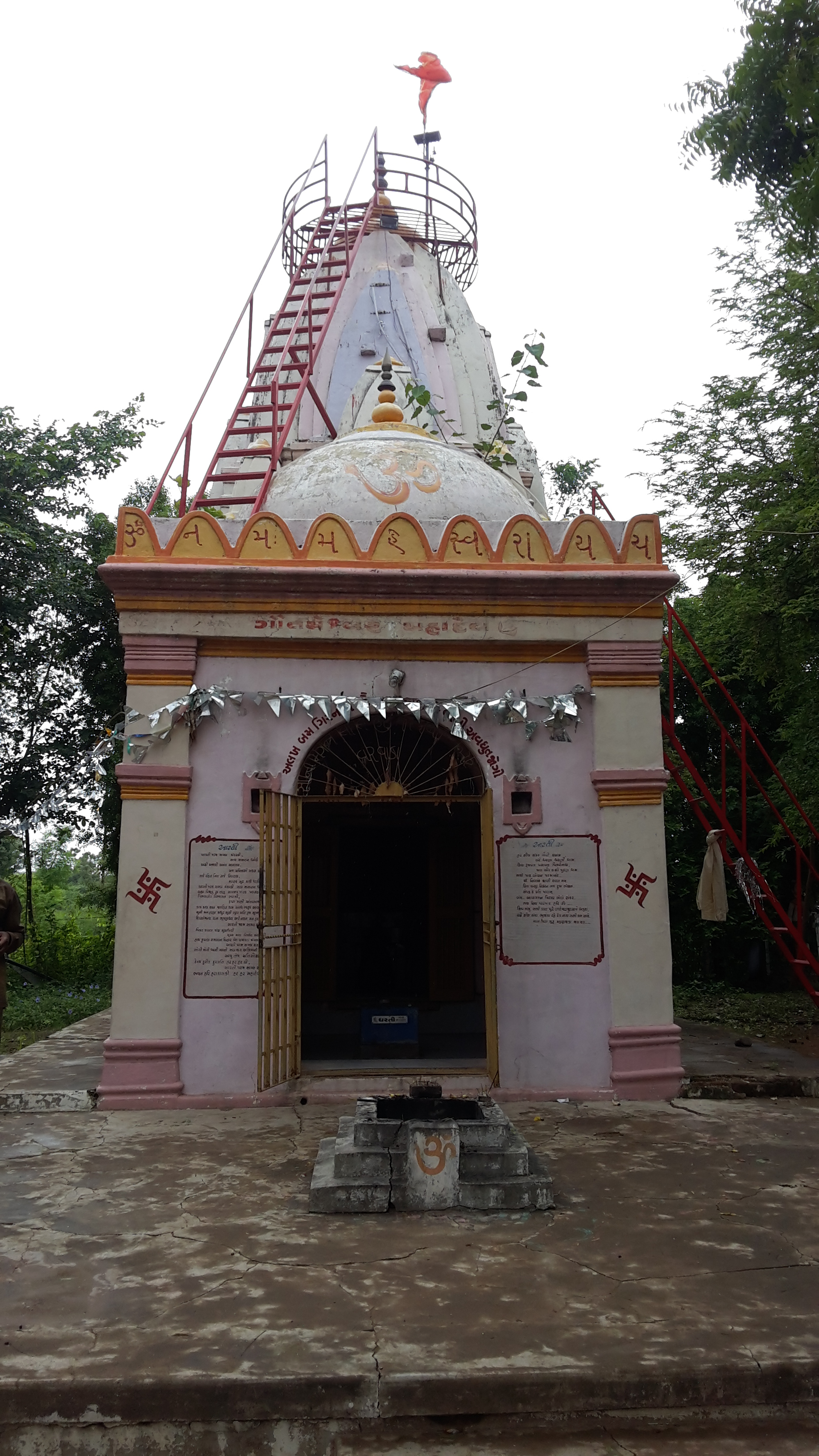 This is The Picture of Gorthiya Mahadev Temple !!